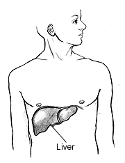 NDDIC provides information about digestive diseases to people with digestive disorders and to their families, health care professionals, and the public. This publication is not copyrighted. The Clearinghouse encourages users of this fact sheet to duplicate and distribute as many copies as desired. What I need to know about Hepatitis C